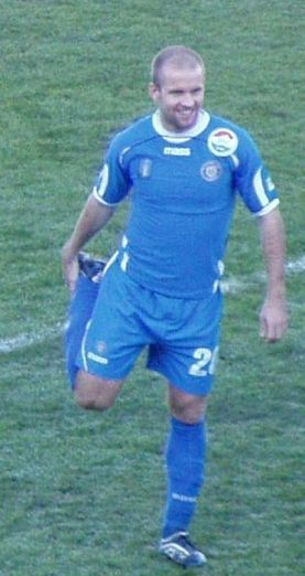 Norbert Tóth Hungarian football player in ZTE-Aréna